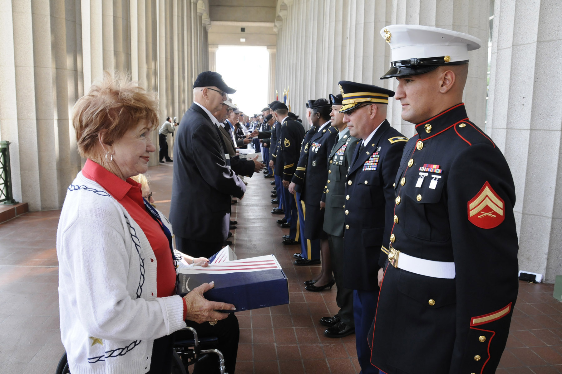 Medal of Honor recipients receive a flag from their military escorts, shortly before the opening ceremony of the Medal of Honor Convention at Soldier Field, Chicago, Sept 15, 2009. The flags had been previously flown over Soldier Field on the anniversary of the date of those receiving the Medal of Honor.